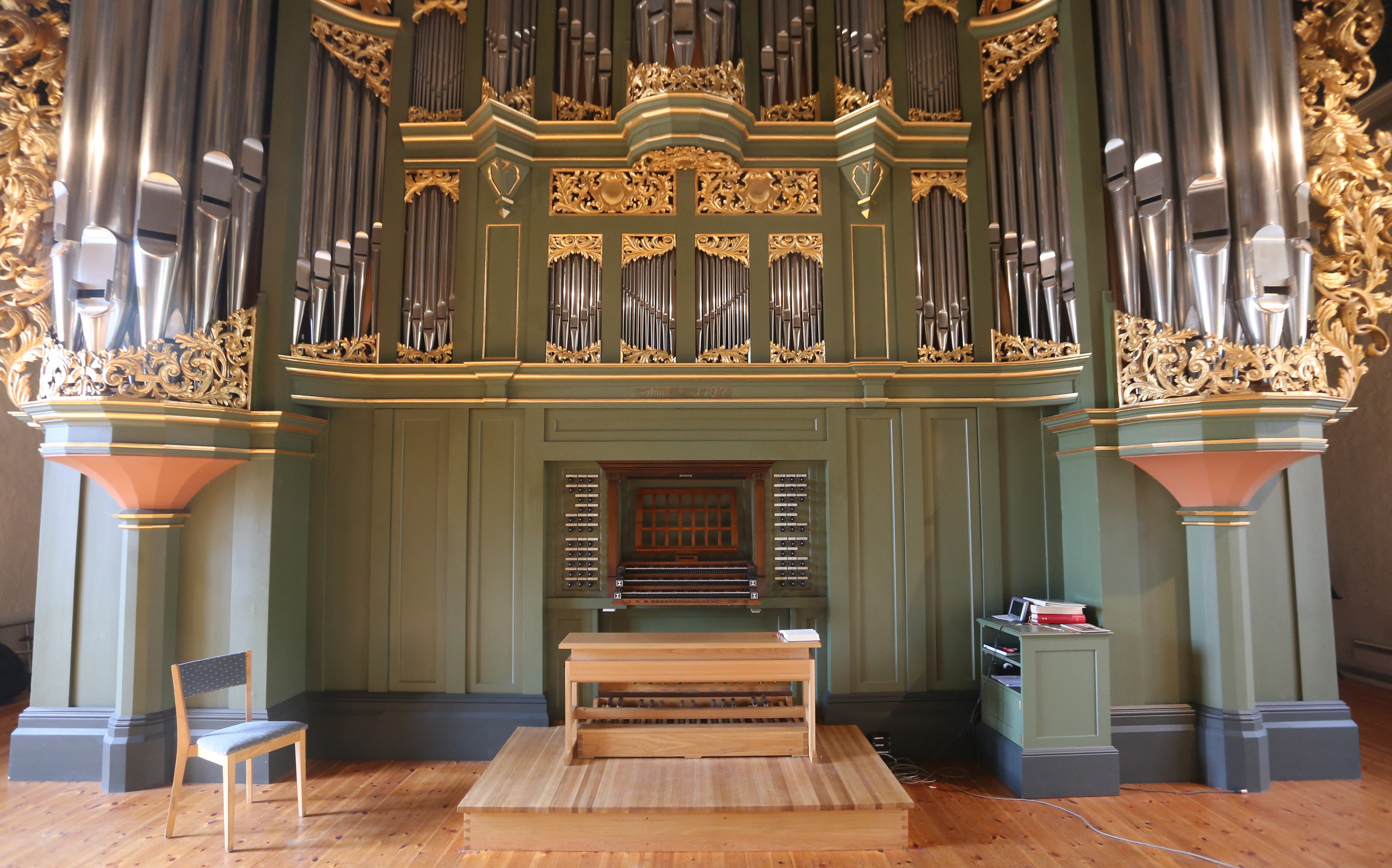 The organ of Oslo Cathedral